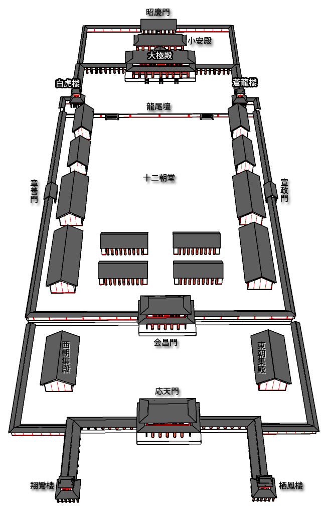 Plan of Chodoin, Heiankyo. 平安京朝堂院模式図